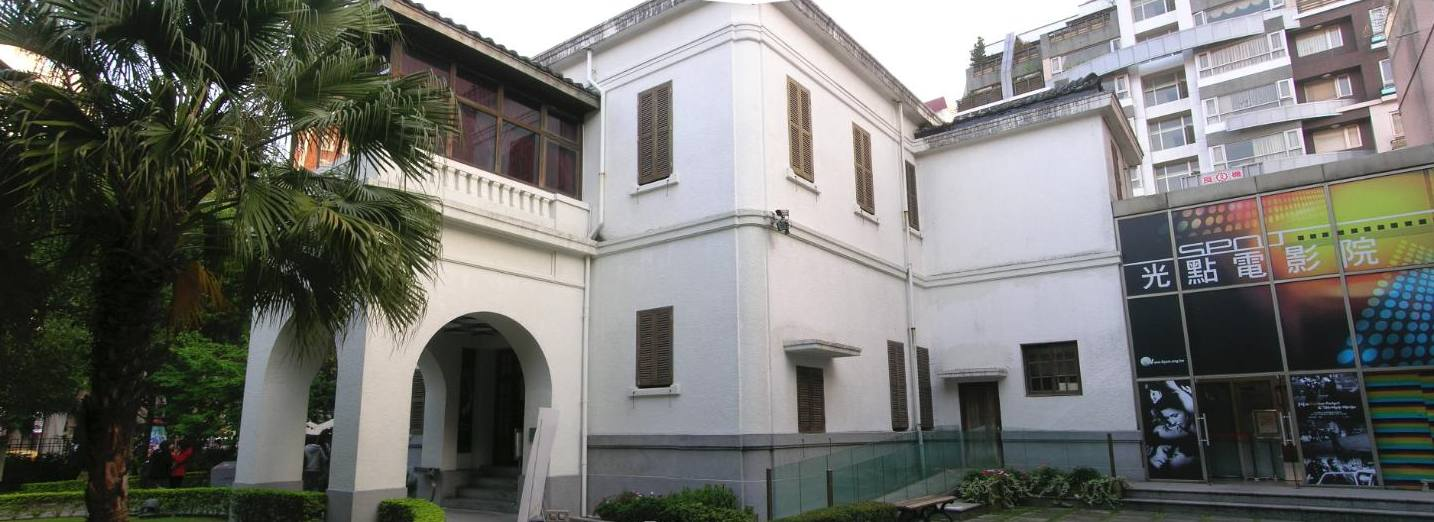 Former American Consulate in Taipei